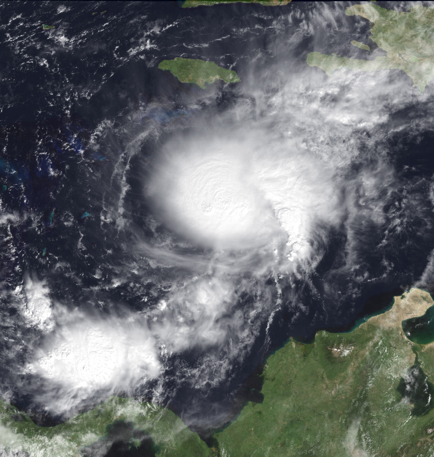 Hurricane Marco shortly after peak intensity south of Jamaica on November 20, 1996